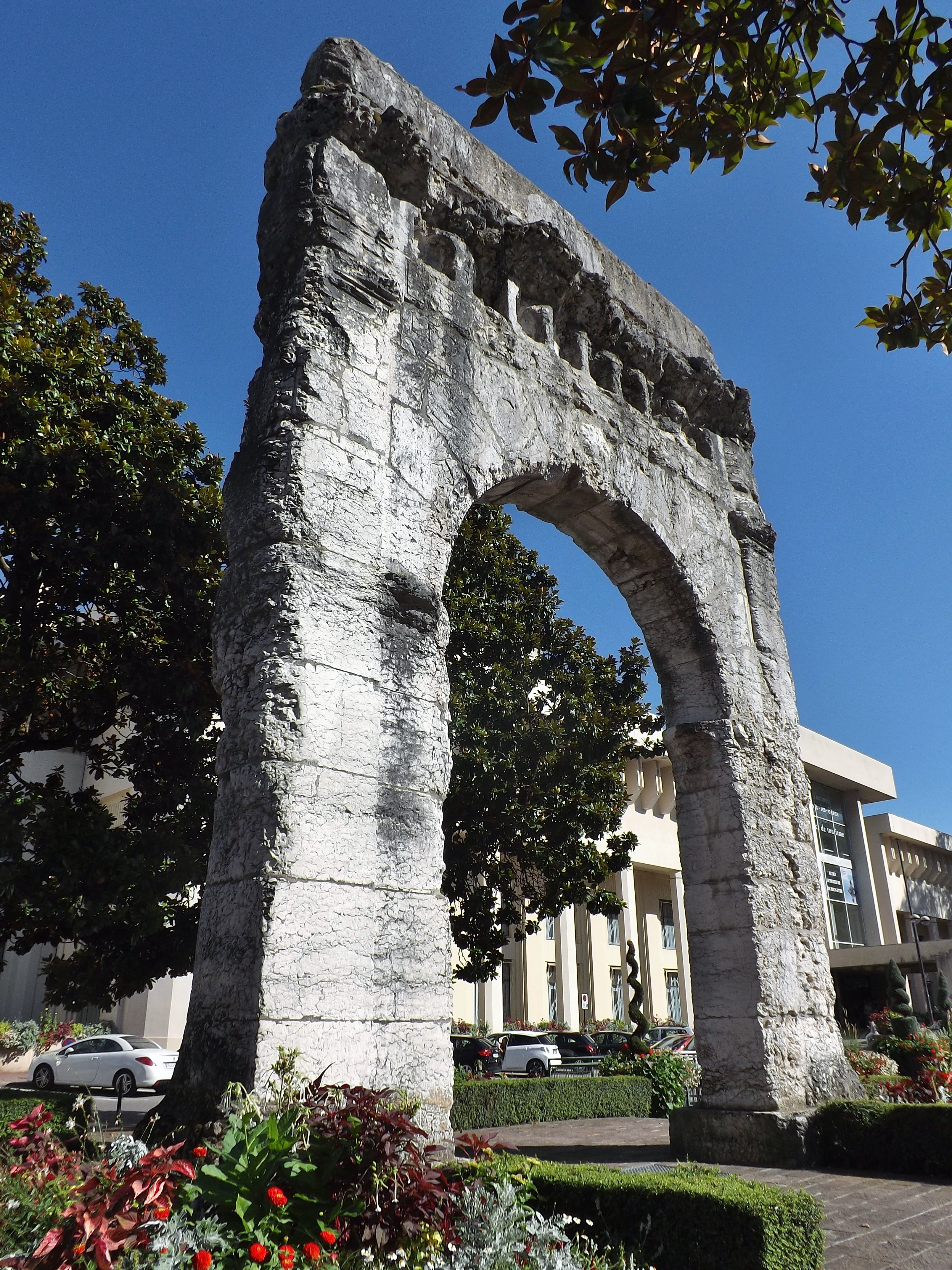 Sight of the Arc de Campanus Roman arch, and the national thermal baths, in the French town of Aix-les-Bains in Savoie.